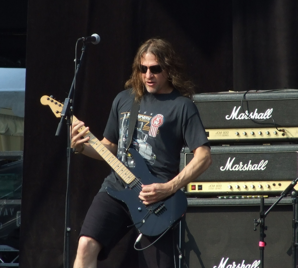 Klaus Eichstadt, guitarist of the American rock band Ugly Kid Joe, performing at Sofia Rocks Fest 2012, Bulgaria.